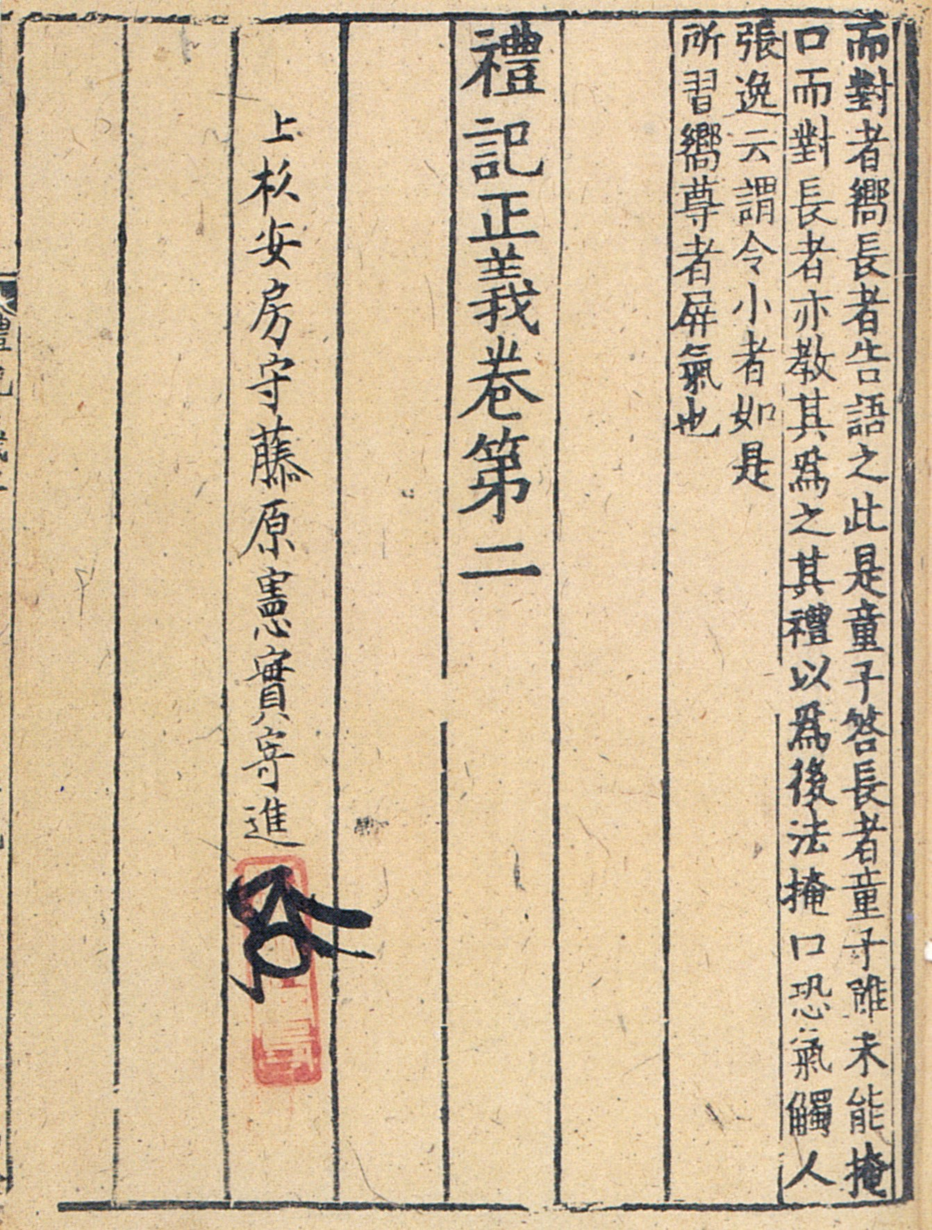 Page of a bool printed at time of Song